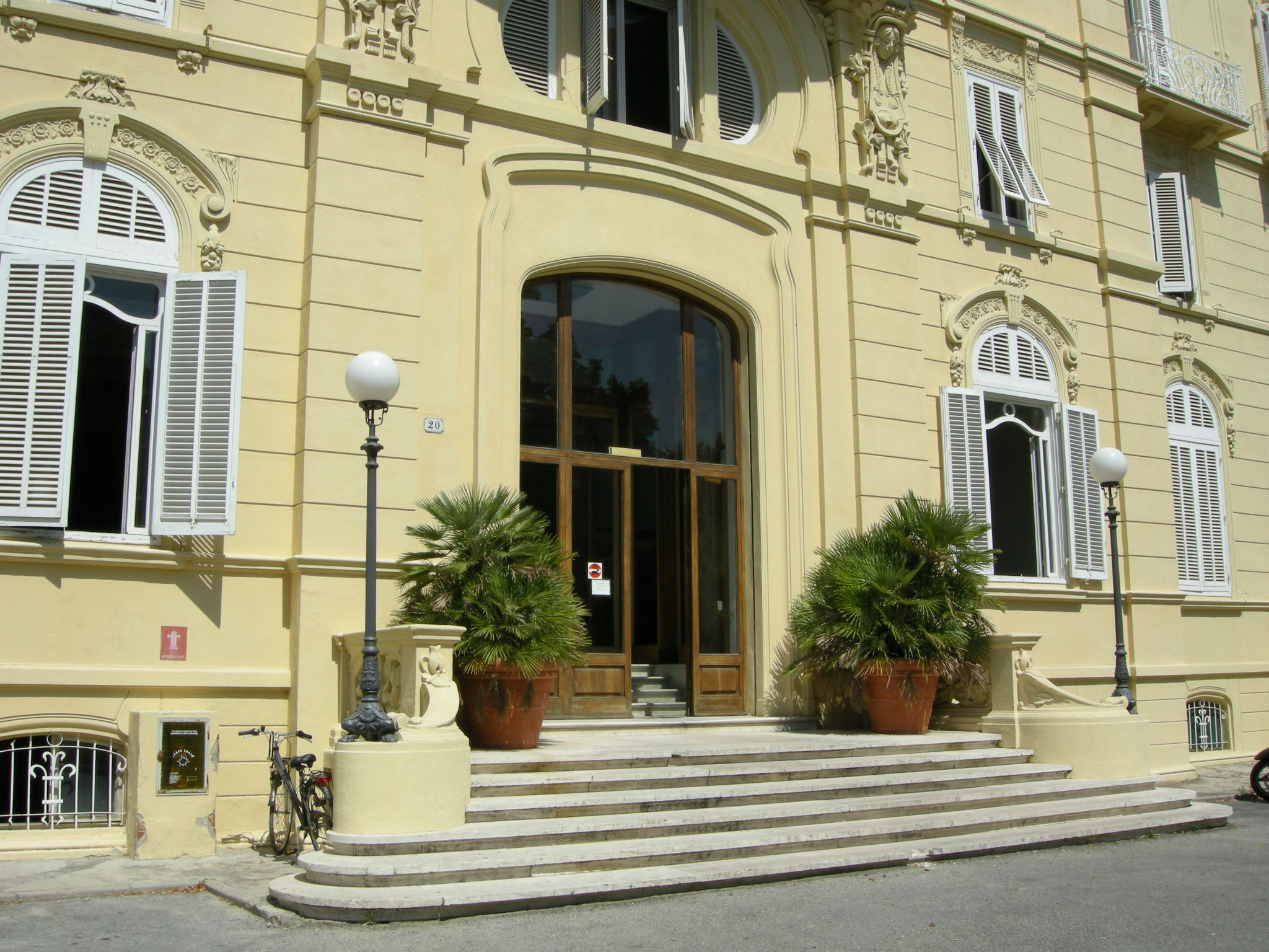 Grand hotel corallo